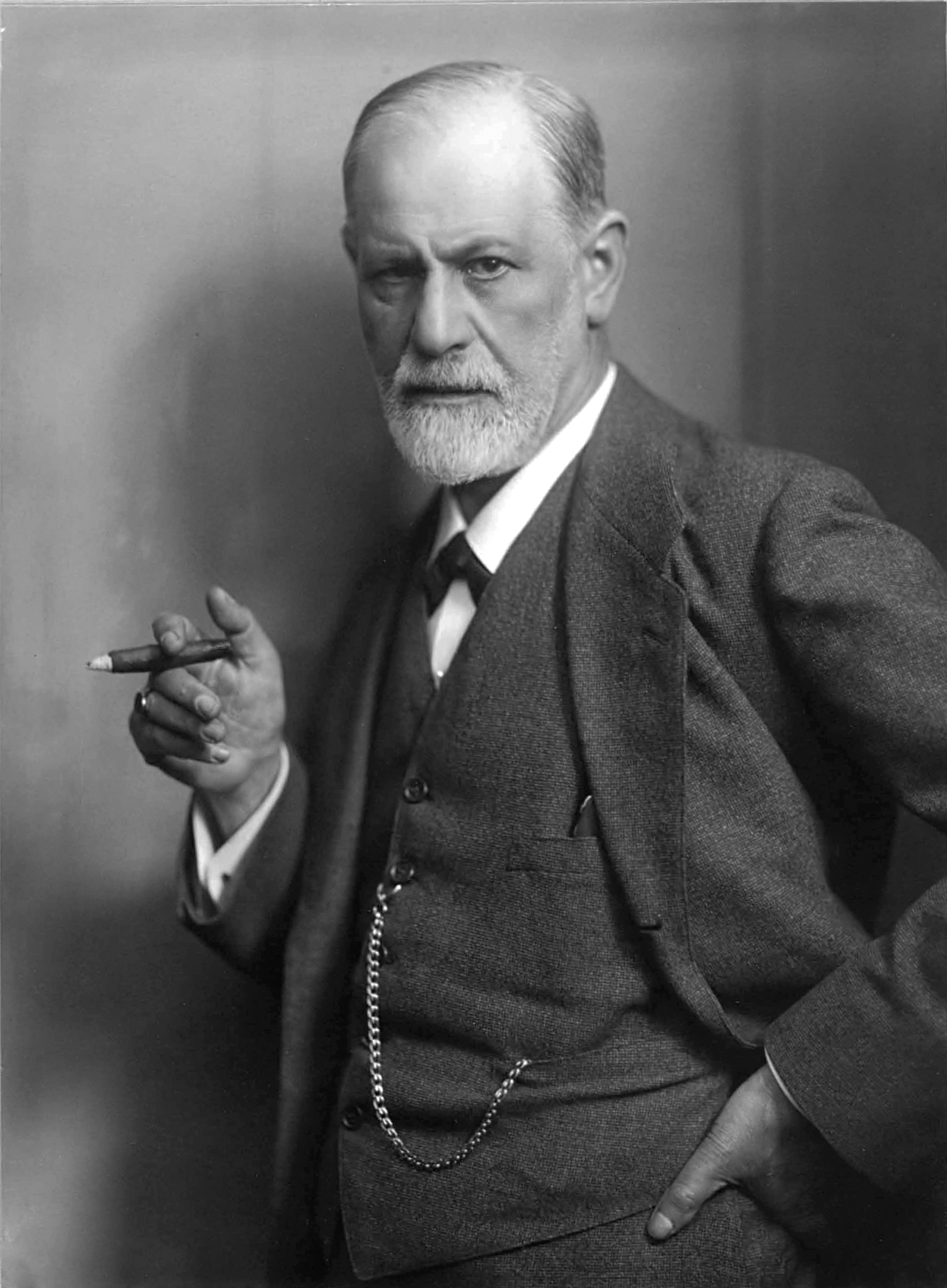 Photographic portrait of Sigmund Freud, signed by the sitter ("Prof. Sigmund Freud")